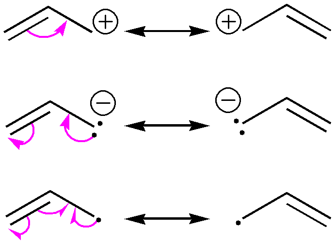 Stabilisation of allylic carbocations, caranions and radicals